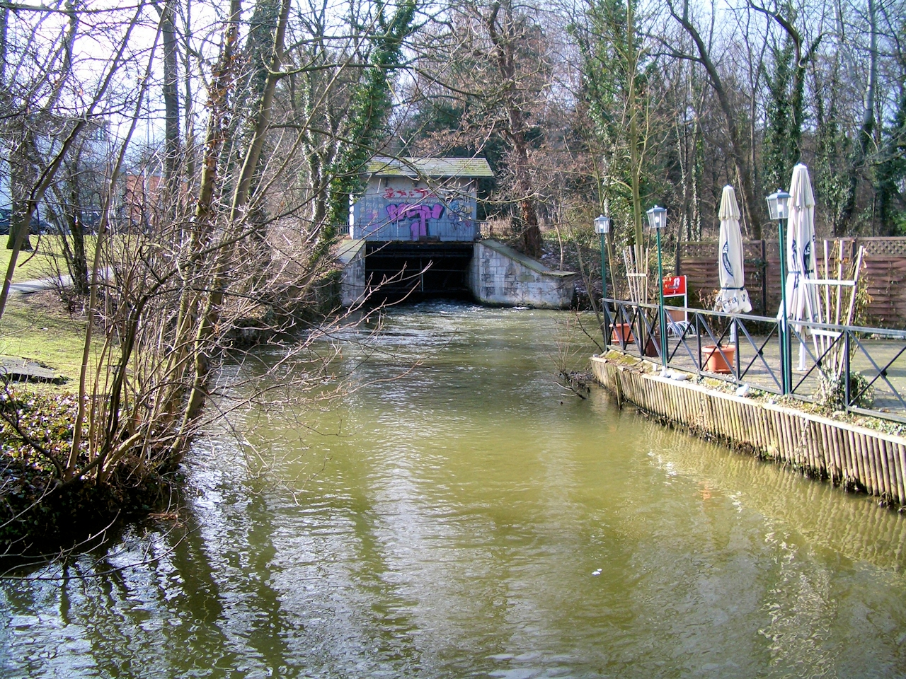 Wolfenbüttel Waterways at Großer Zimmerhof